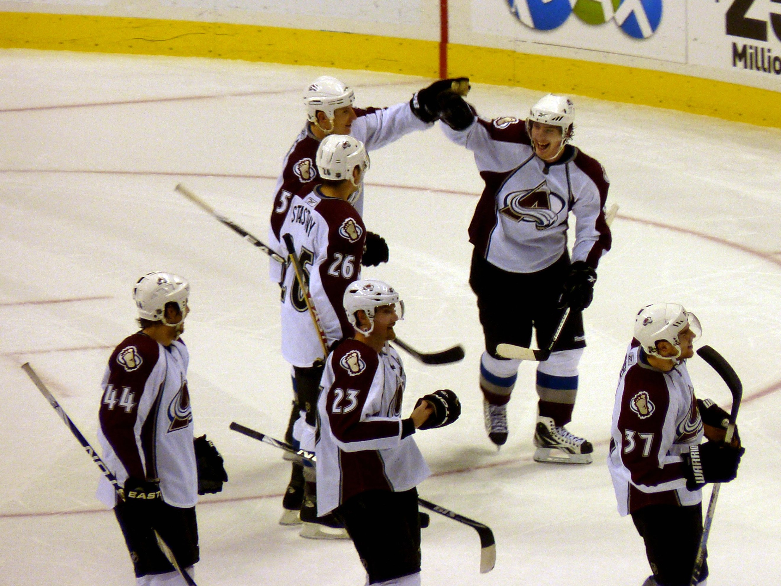 Colorado win in Vancouver to claim the eighth and final Western Conference playoff berth! Col @ Van 6-Apr-2010